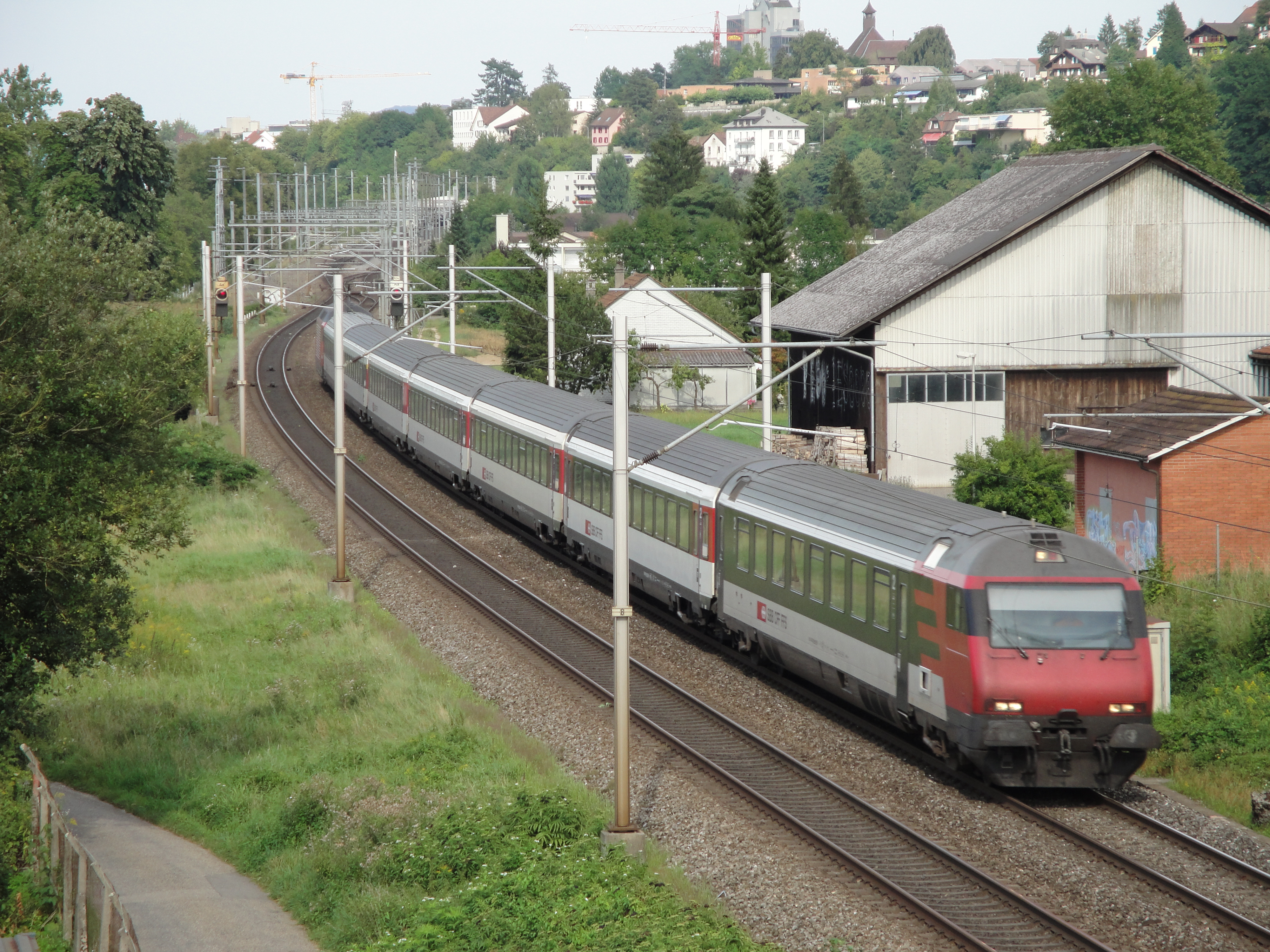 SBB Interregio train Zurich – Bern between Aarau and Olten